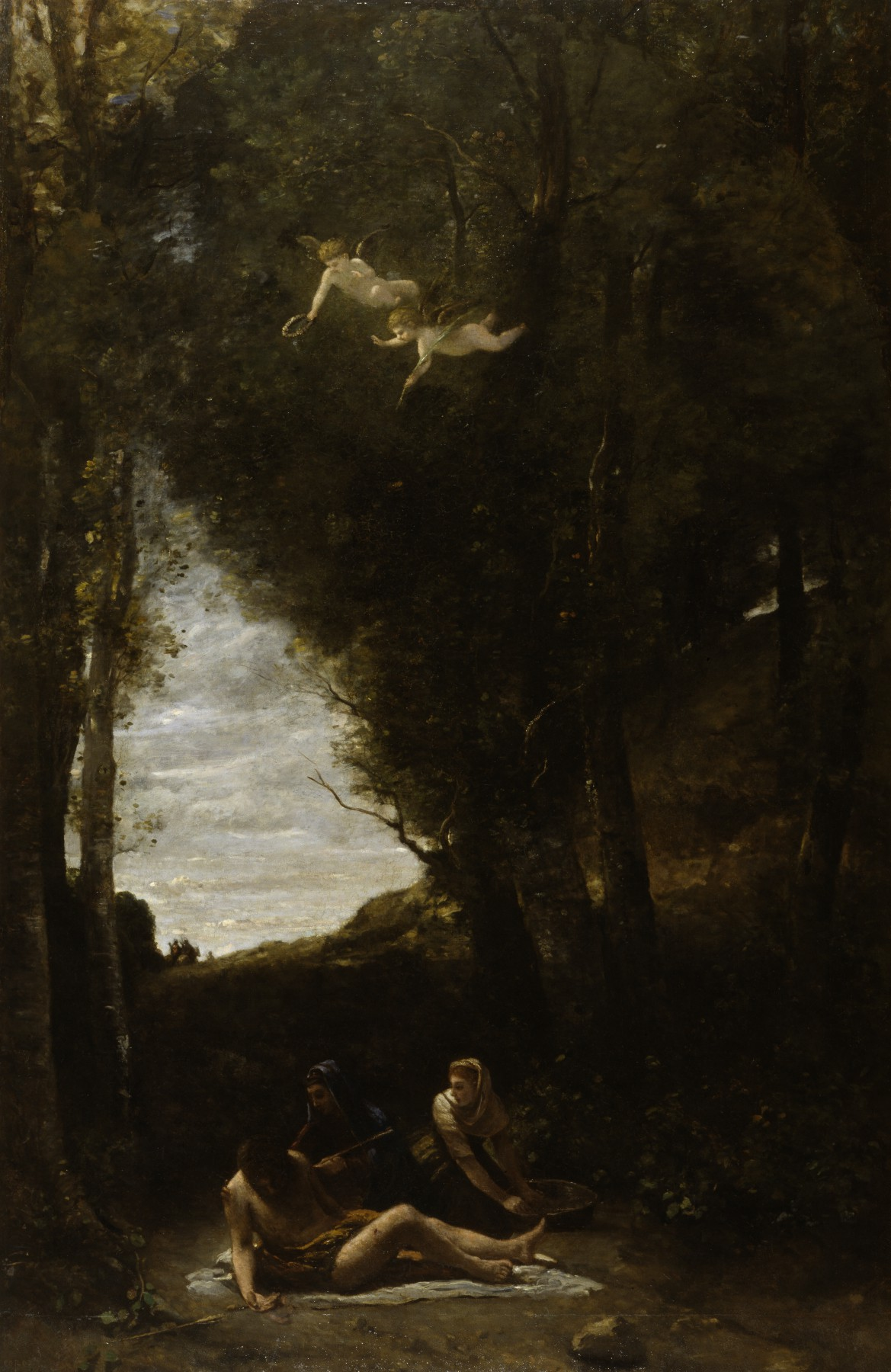 Two Christian women, Irene and a companion, extract arrows from Sebastian, who has been left for dead by the Roman emperor Diocletian's archers. Sebastian miraculously recovered, only to be clubbed to death later. In Corot's painting, Sebastian's approaching sainthood and martyrdom is symbolized by putti, or cherubs, who carry a laurel wreath and a palm frond. As one critic wrote in 1871, "At the moment when St. Sebastian suffers and seems to die, the forest shares in his agony and mourns his death, while at the same time lifting him up to the heavenly spaces of a melancholic sky." Evidence of Corot's reworking of this ambitious canvas over the course of more than 20 years is visible to the naked eye. According to the artist's biographer and close friend, Alfred Robaut, Corot reworked the painting after it was exhibited at the Paris Salon of 1853 and then once again in preparation for the Exposition Universelle (World's Fair) of 1867. In 1871, he donated the painting to a lottery to raise funds for the orphans of the Franco-Prussian War. The artist finally filled in the upper corners of the composition in 1873.